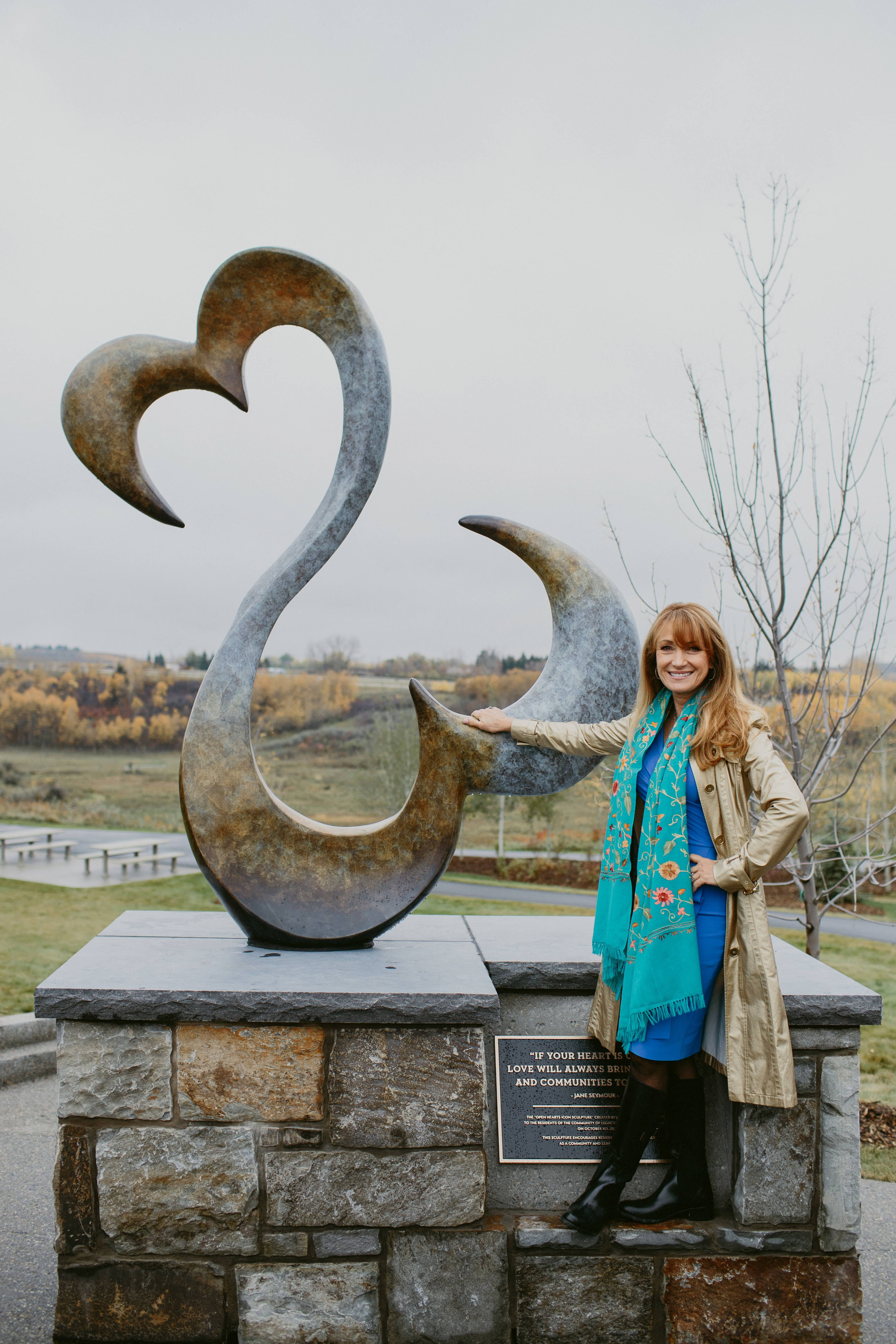 Jane Seymour Unveiling the Open Hearts Icon Sculpture in Legacy on October 1st, 2016